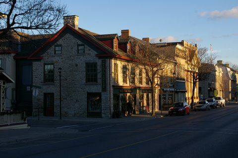 Historic Perth, Ontario. Photo by Michael Kooiman